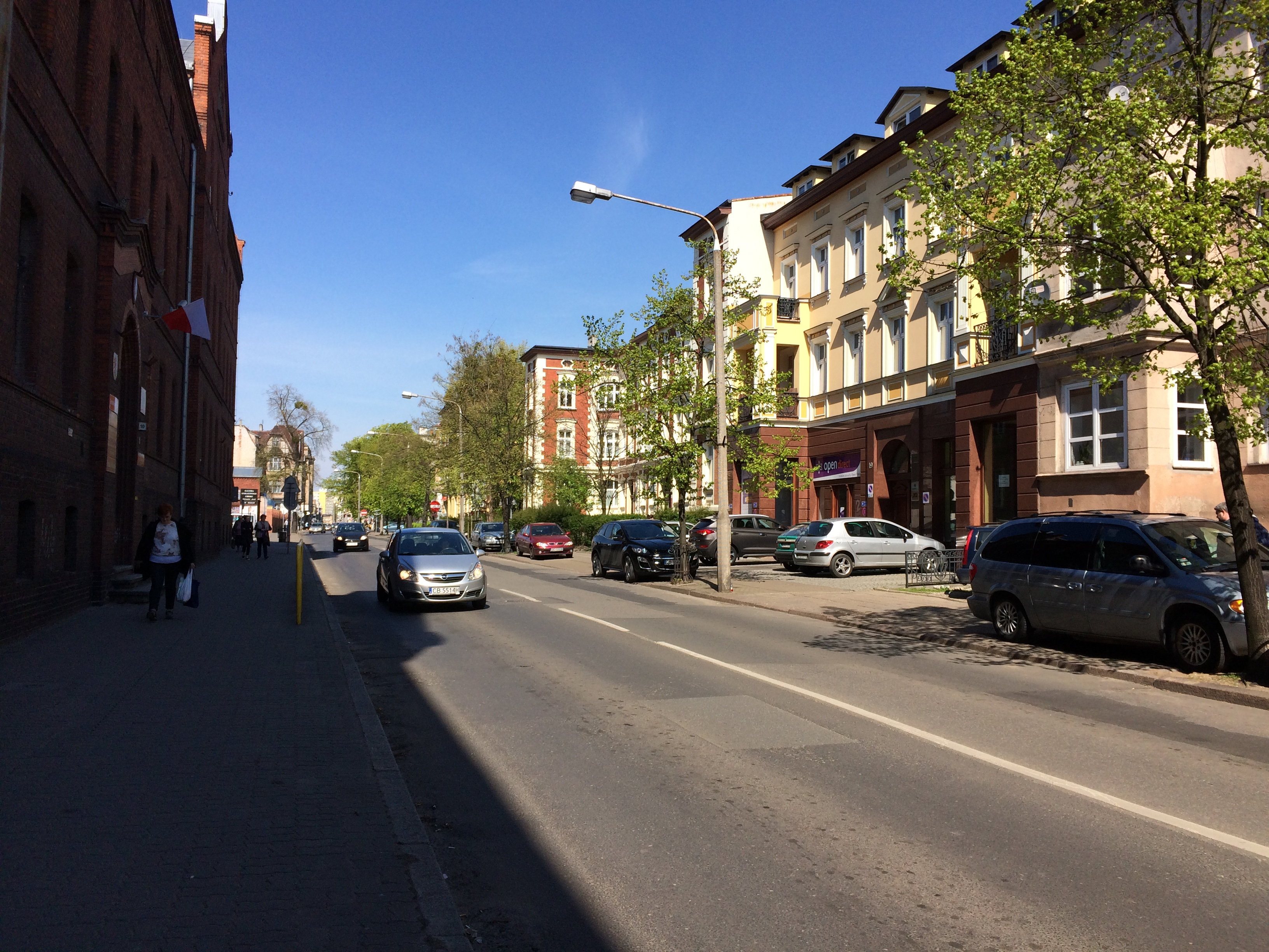 Main view westward